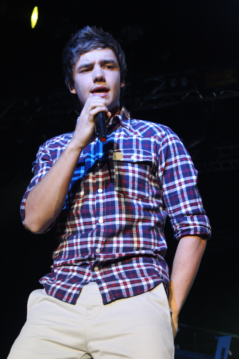 One Direction performs at Hordern Pavilion, Moore Park, Sydney, Australia